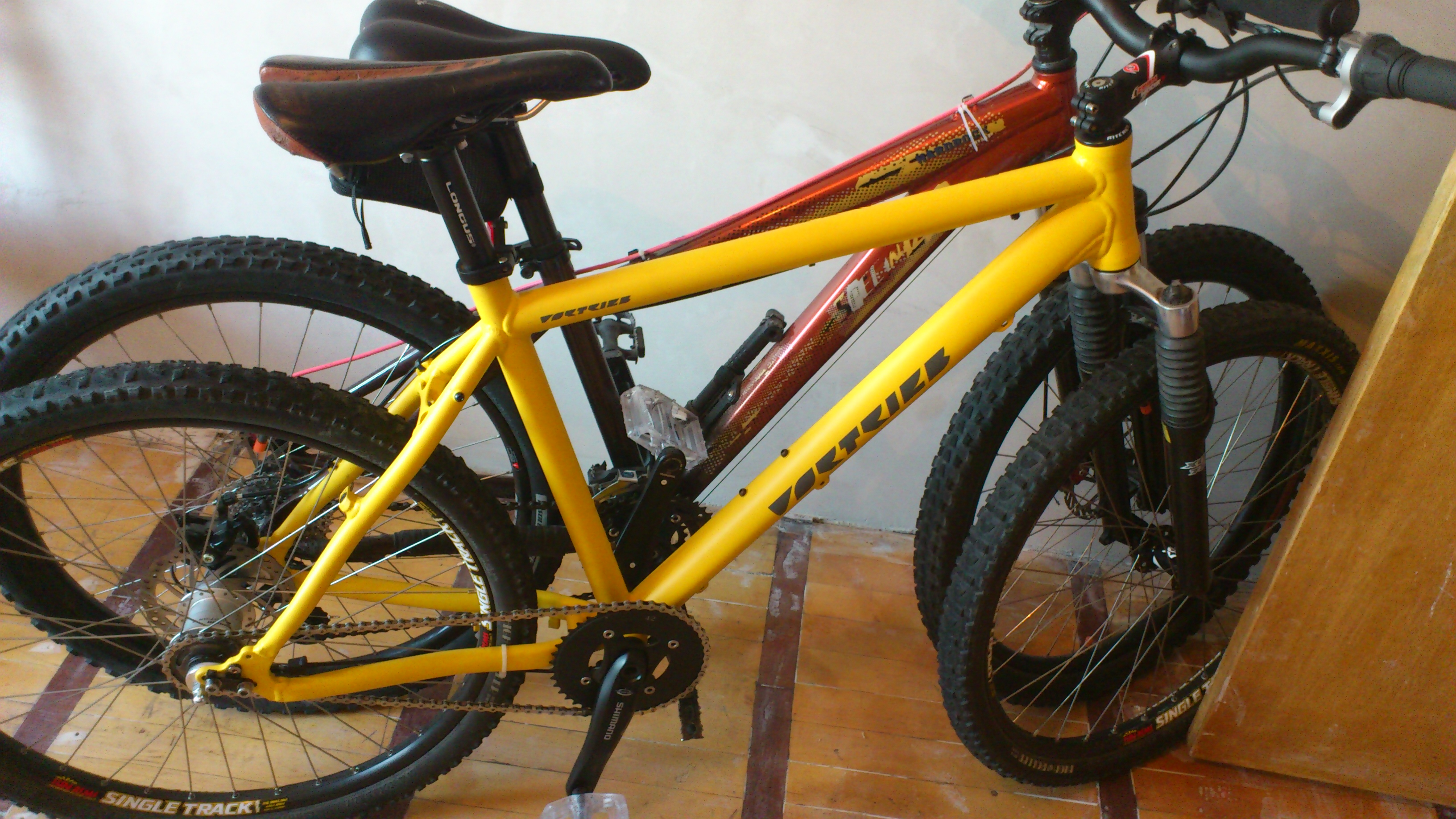 Vortrieb Hardtail Rohloff - bike frame